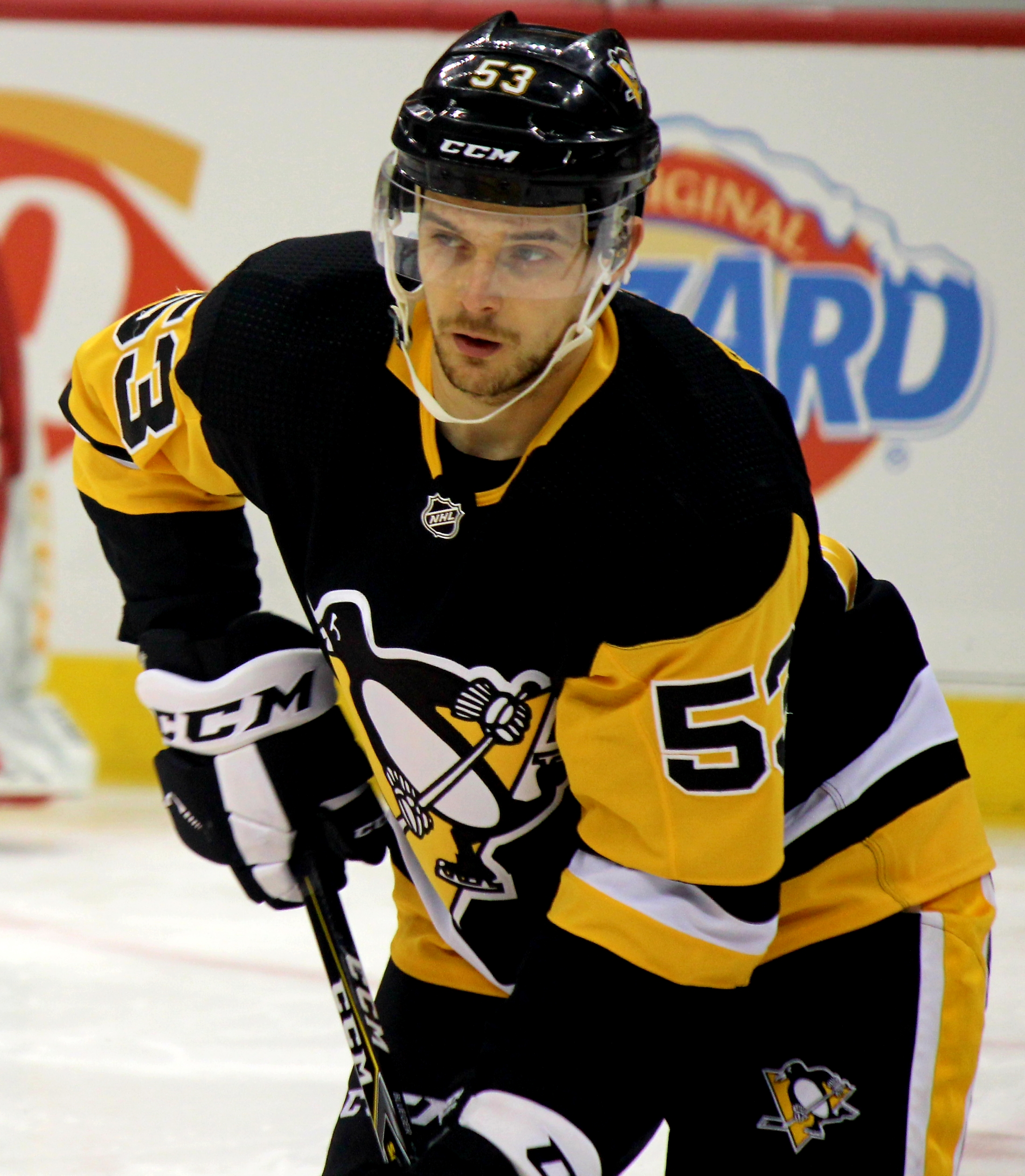 Pittsburgh Penguins forward Teddy Blueger